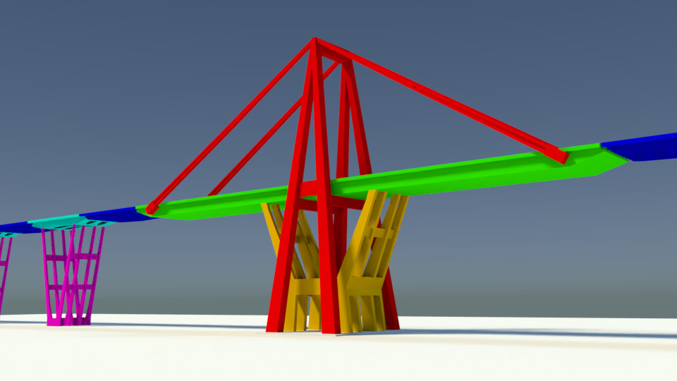 Structural elements of Polcevera viaduct in Genoa (also know as "Morandi Bridge").